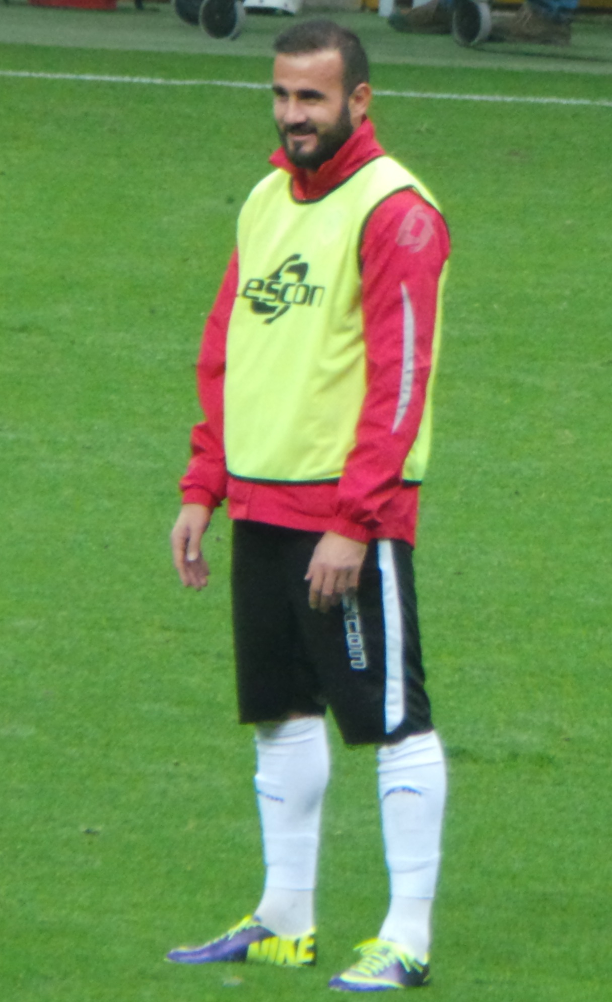 Gökhan Ünal with Karabükspor